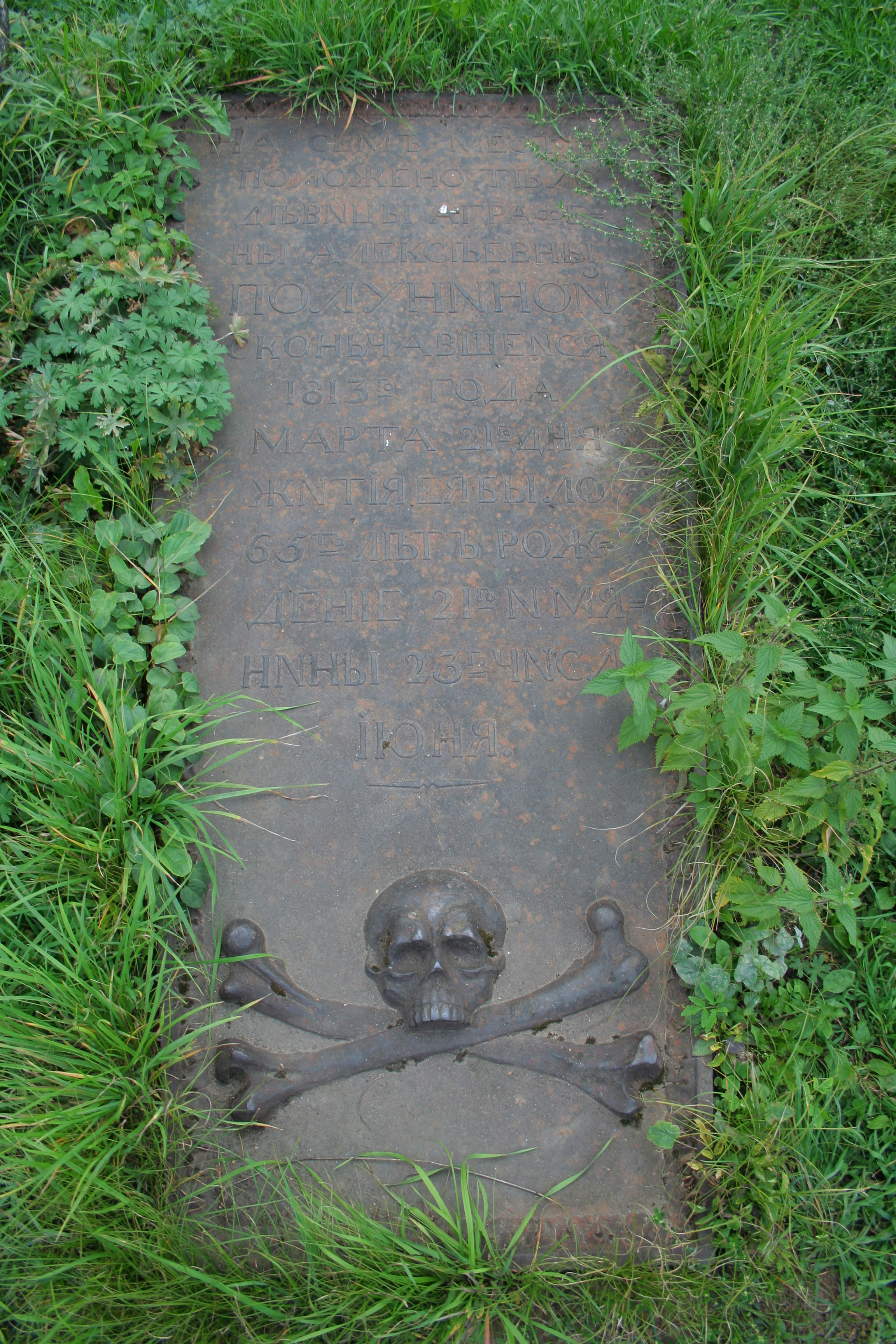 New Jerusalem Monastery in Istra, Russia. An old graveyard of the monastery.